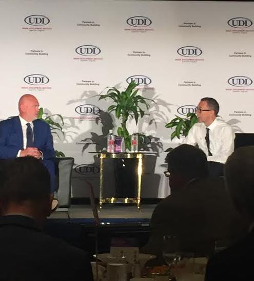 Bob and Steve.